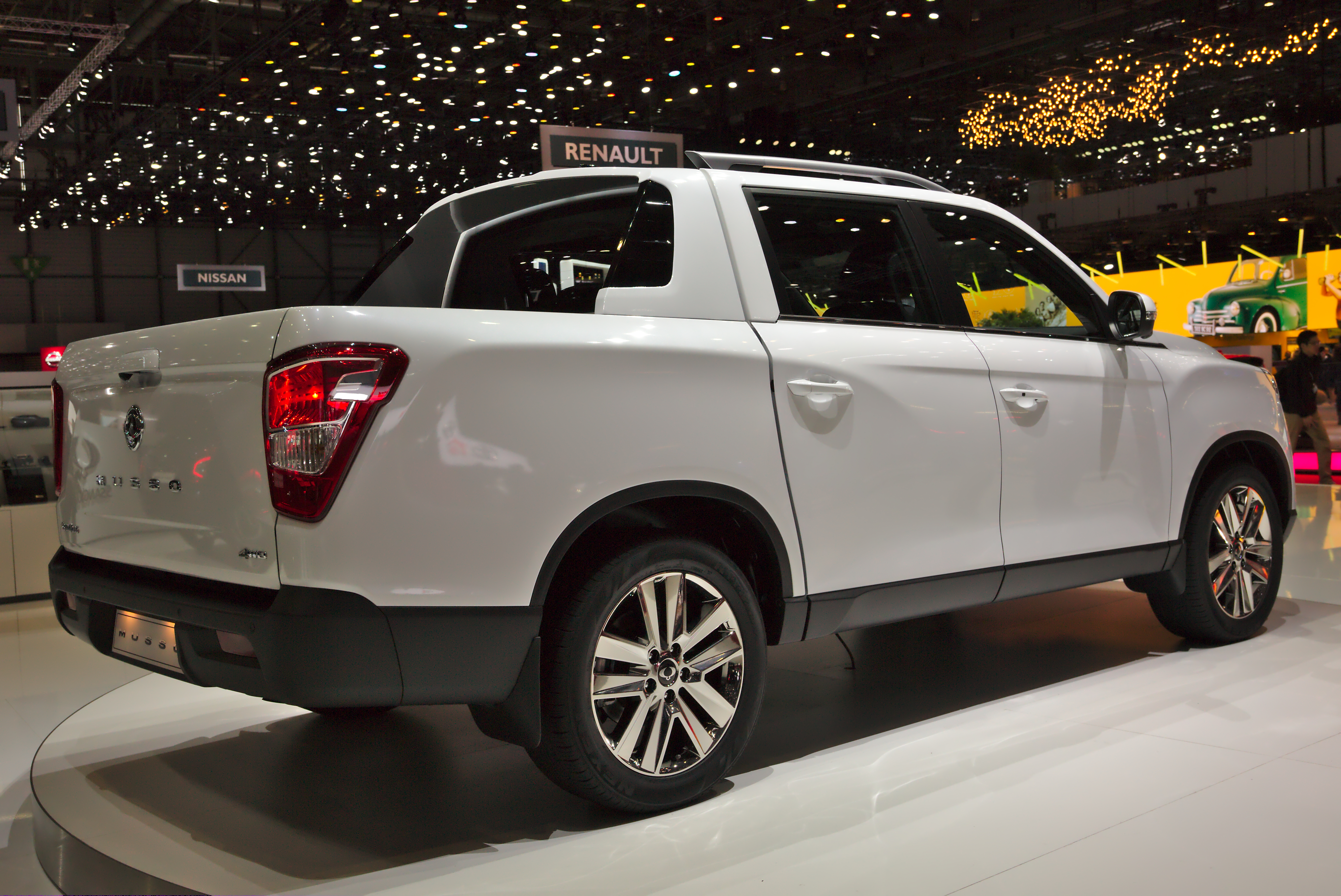 Ssangyong Musso at Geneva Motorshow 2018